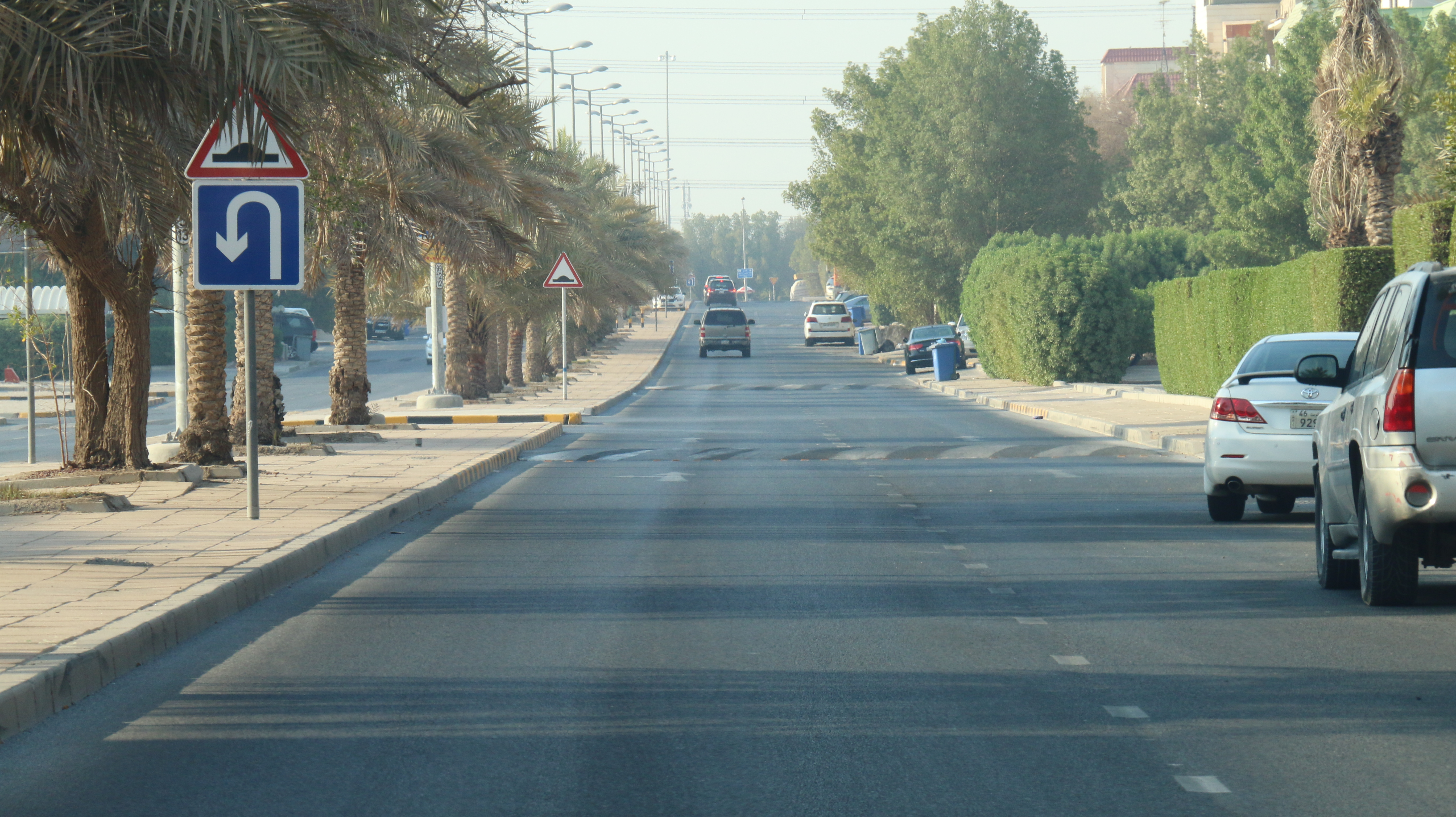 One of Al-Ardiya City's roads.